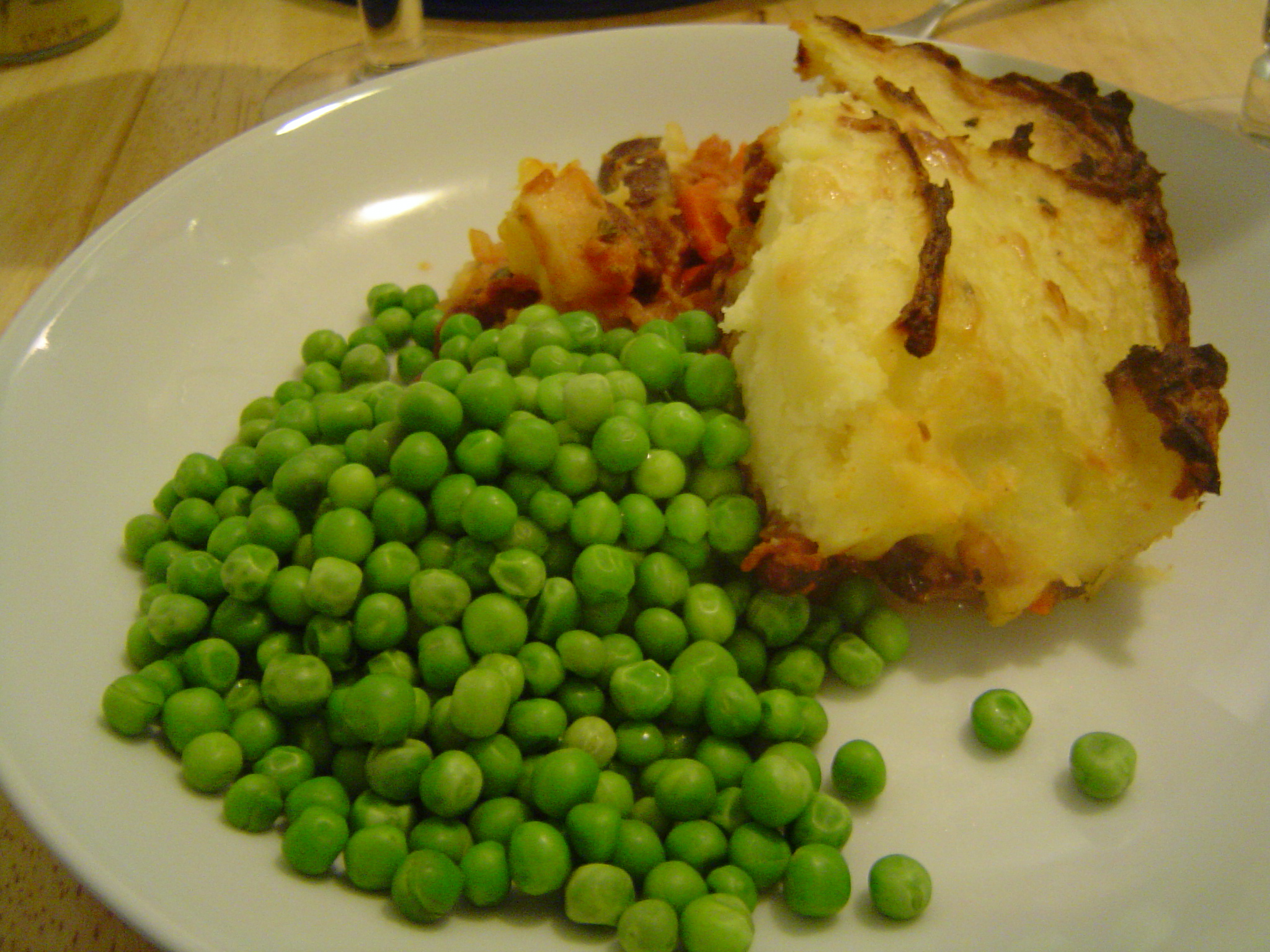 Shepherdess Pie with peas.